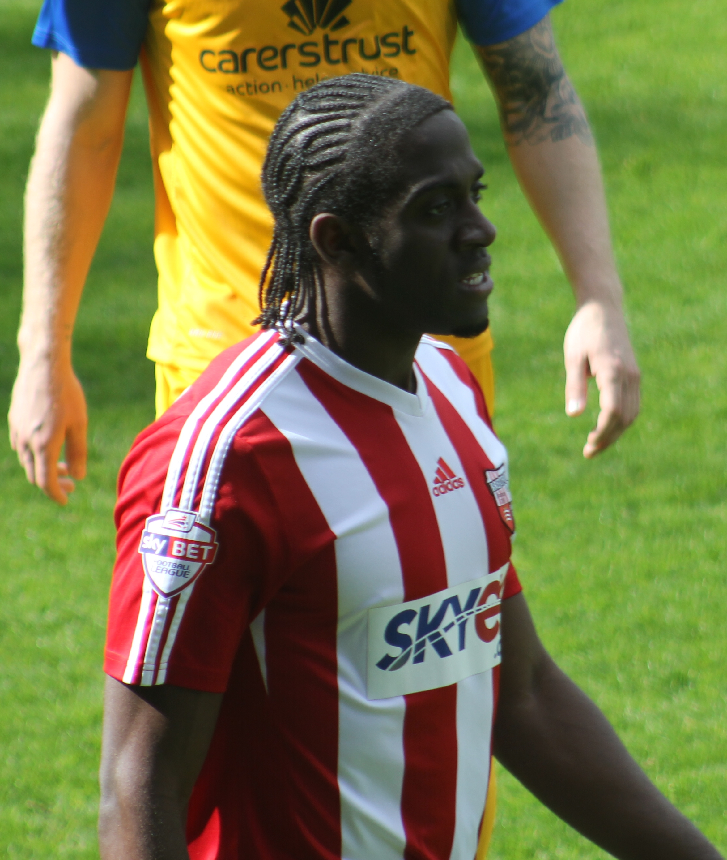 Clayton Donaldson playing for Brentford against Preston North End at Griffin Park, Brentford on 18 April 2014